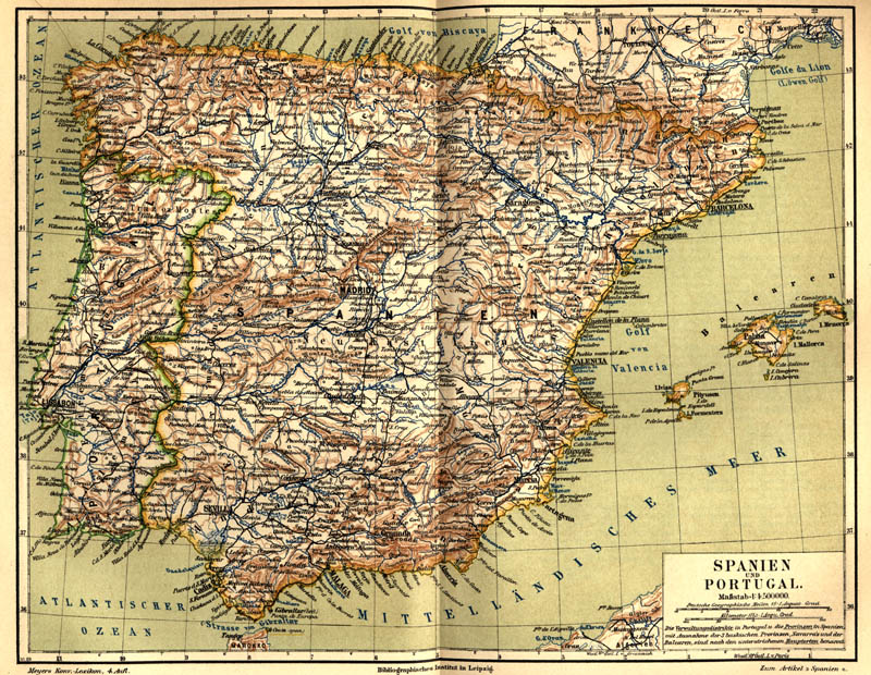 This is page 63 of 1044, in Volume 15 of the German illustrated encyclopedia Meyers Konversationslexikon, 4th edition (1885-1890), fraktur font.